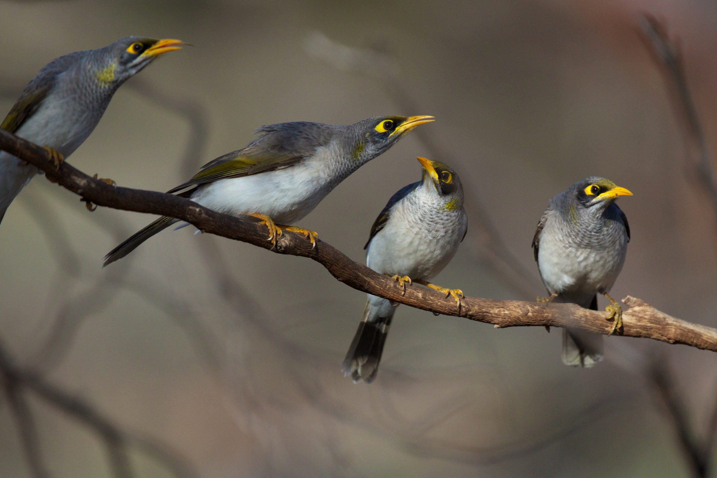 Meliphagidae - Yellow-throated Miners - Manorina flavigula- showing social behavior. Old Gluepot,Gluepot Reserve, South Australia. Taken on June 14, 2013. As at Gluepot some may be yellow-throated x black-eared miner hybrids.